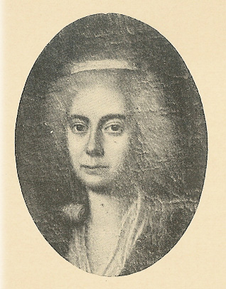 Hofdame Elisabeth Sophie Marie von Eyben (1736–1780). Lady-in-waiting at the court of Christian VII of Denmark.